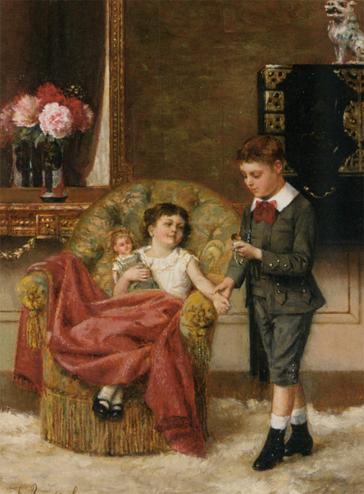 The Young Doctor